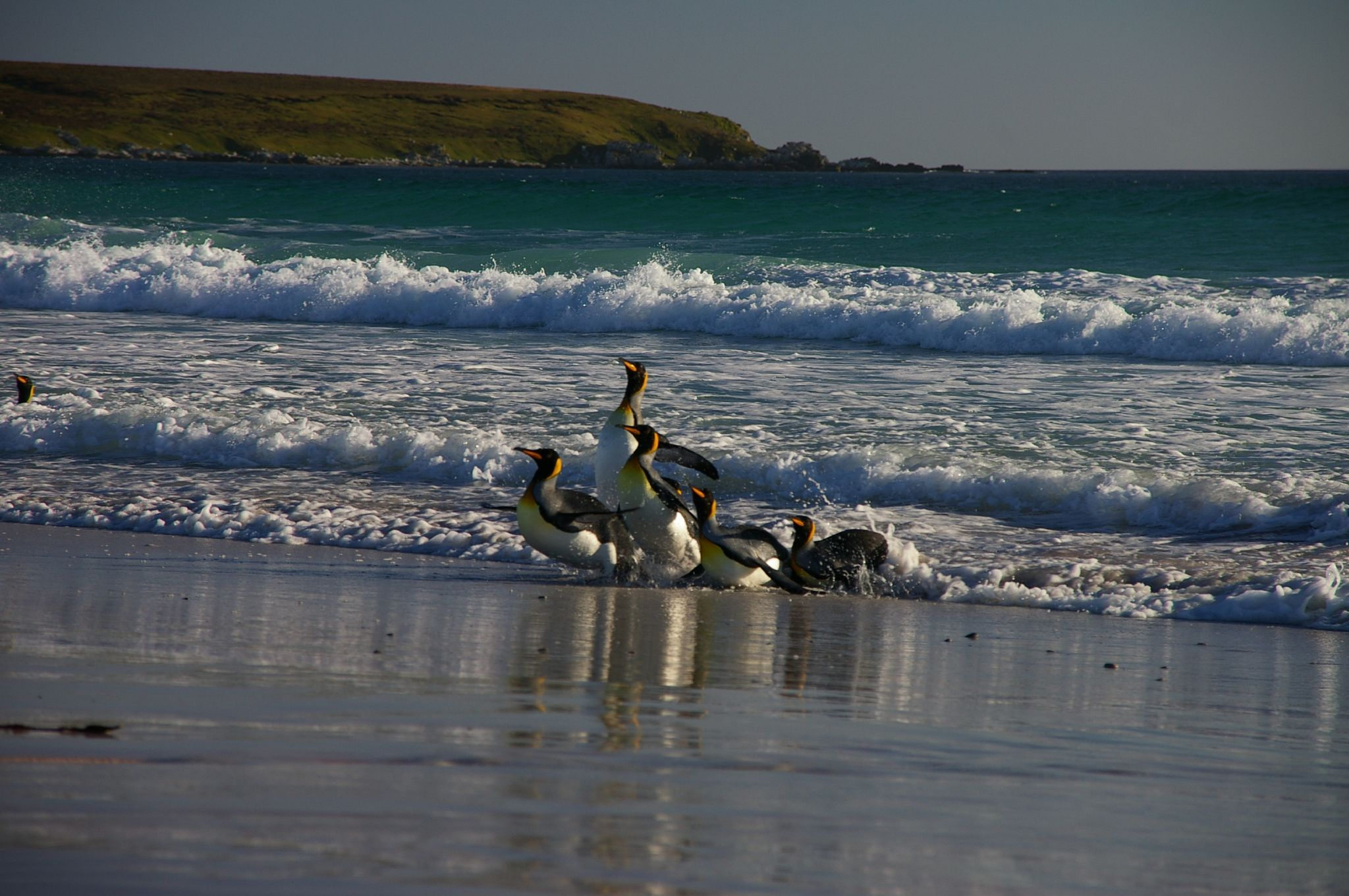 King Penguins (Aptenodytes patagonicus patagonicus), West Falkland